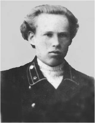 Vanin Stepan Ivanovicn